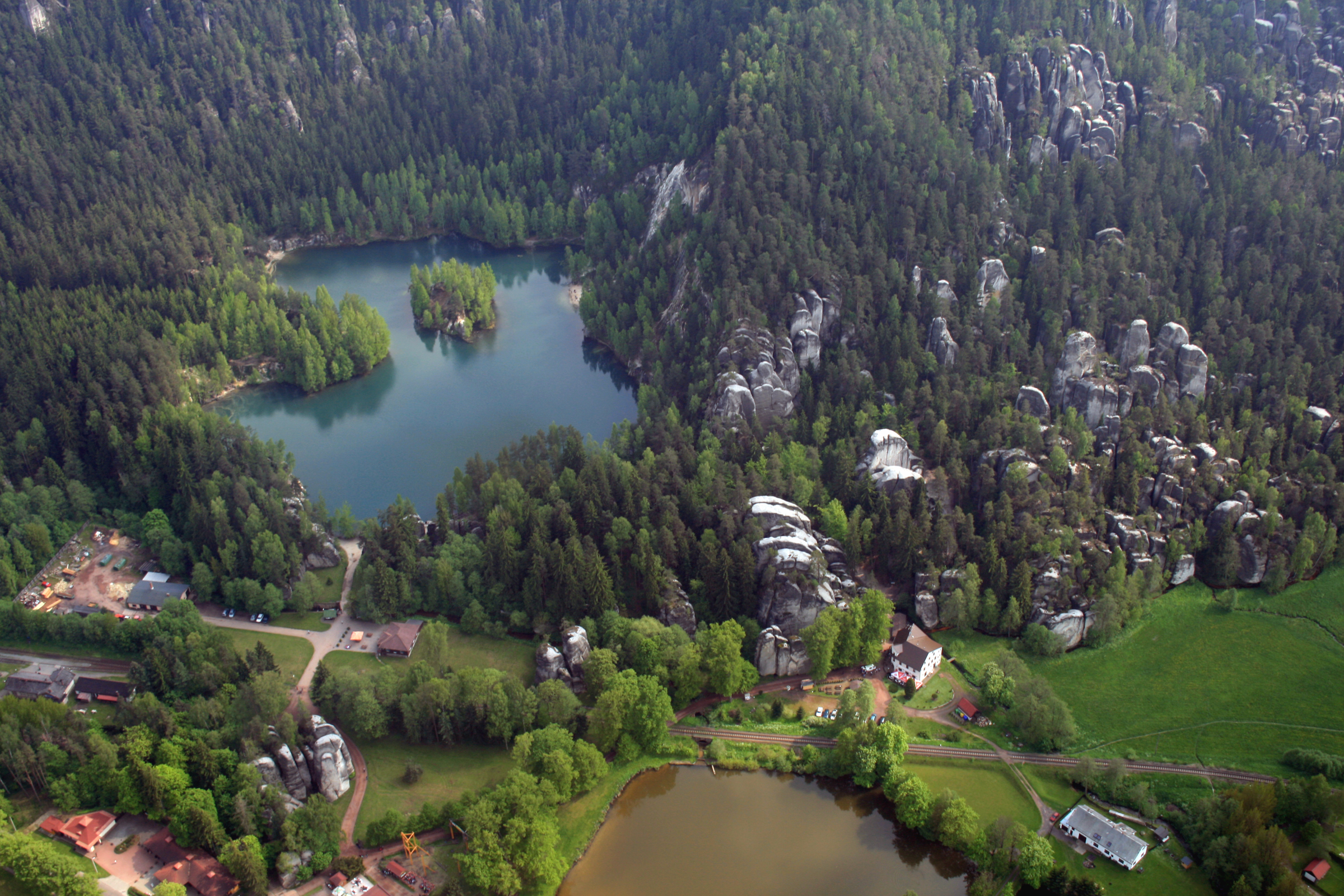 Part of Adršpach-Teplice Rocks from air, eastern Bohemia, Czech Republic